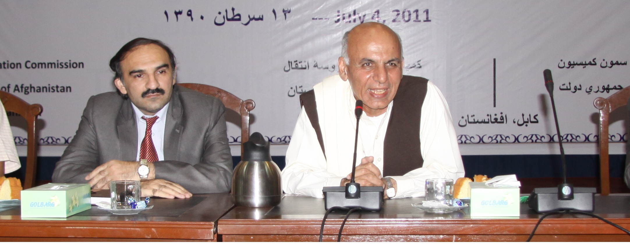 Ajmal Shams with Ashraf Ghani during a conference at time of security transition in 2011